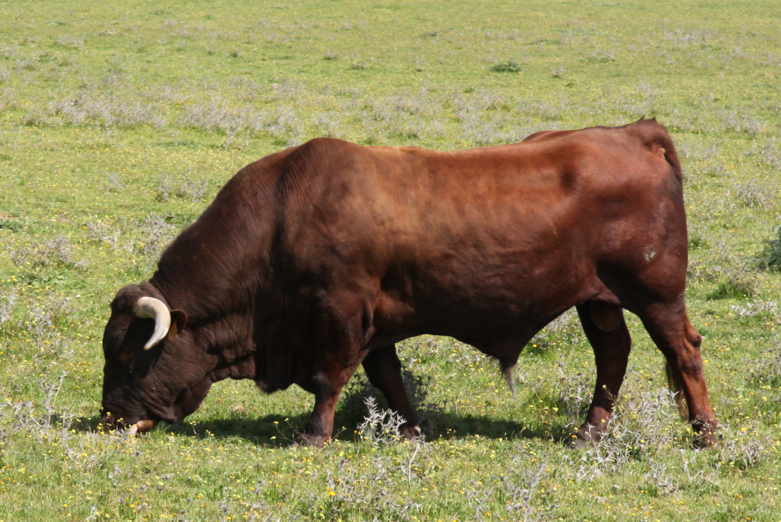 Spanish bull